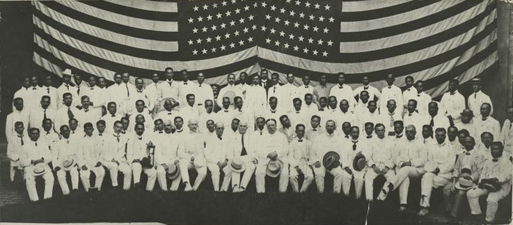 First Philippine Assembly 1907 Tagalog: Unang Kapulungang Pilipino 1907